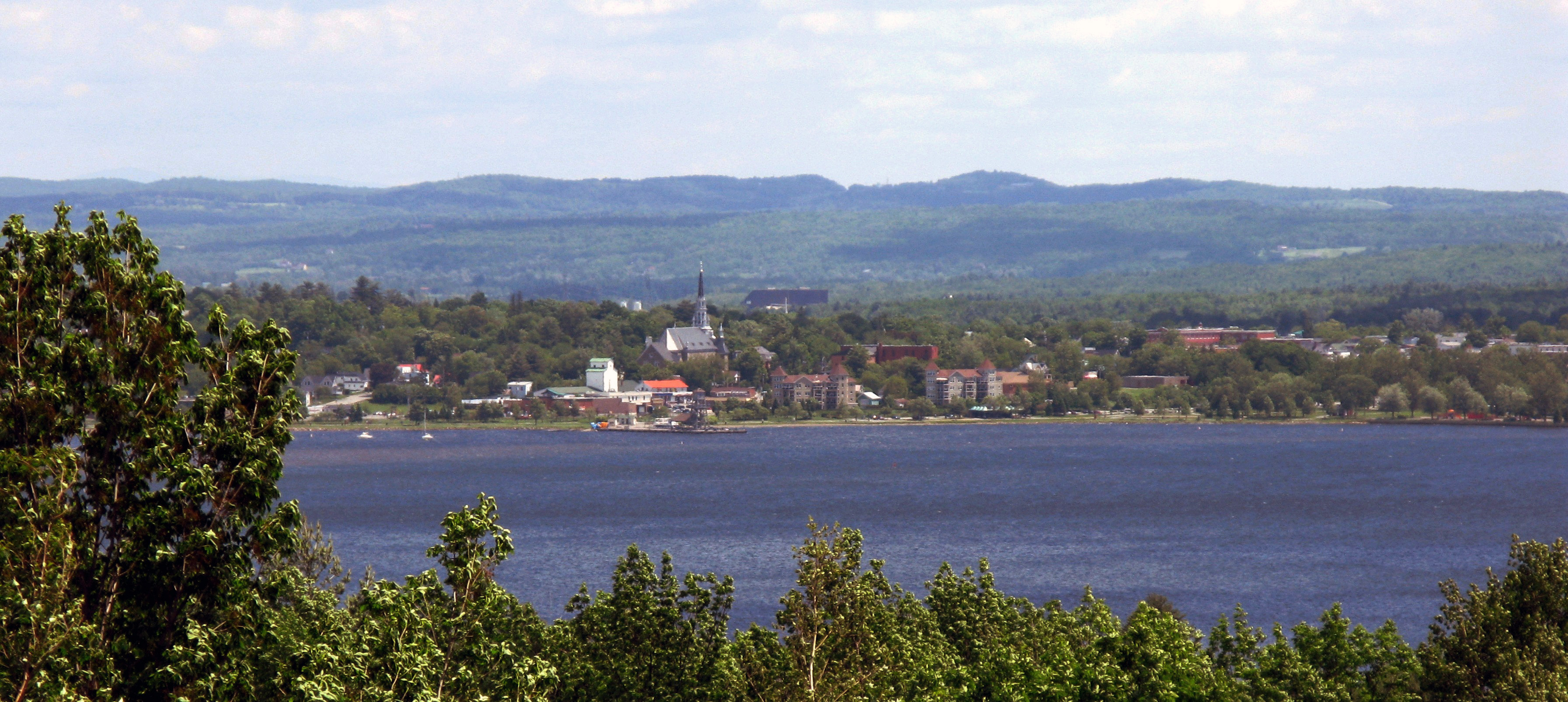 The city of Magog in the province of Quebec, Canada.